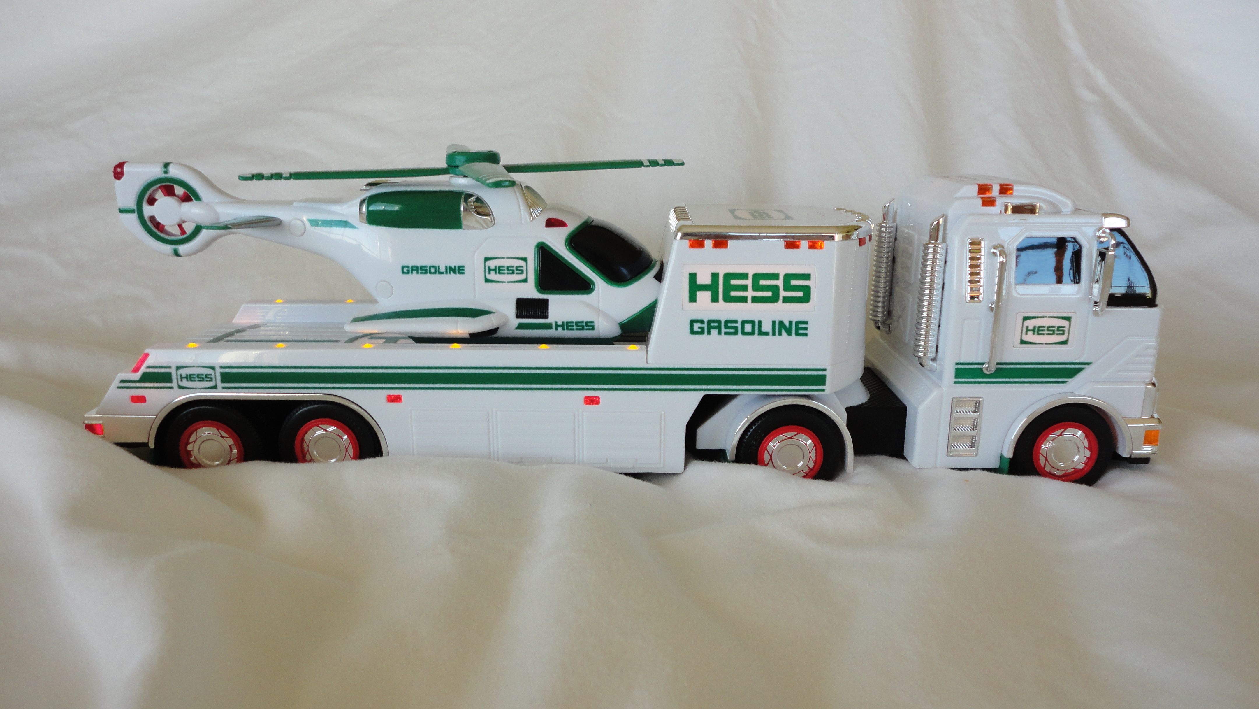 the 2011 hess truck